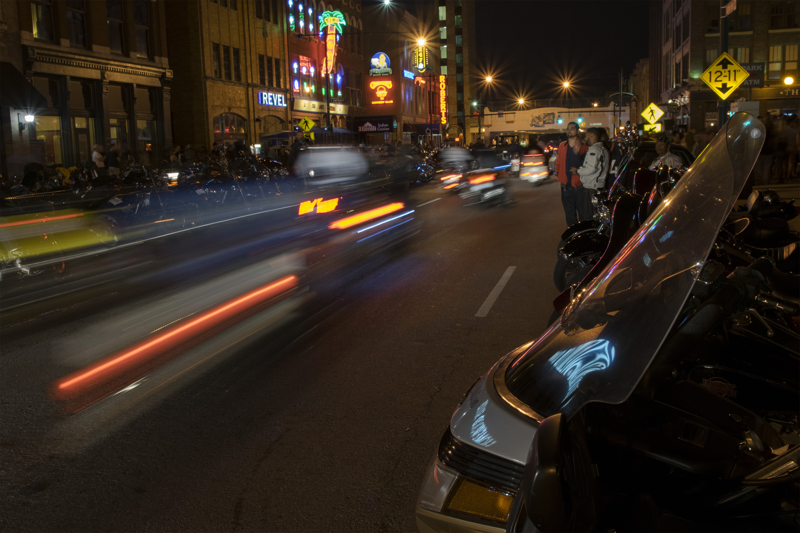 Motorcyclists line South Meridian Street, Wholesale District, Indianapolis, Indiana.